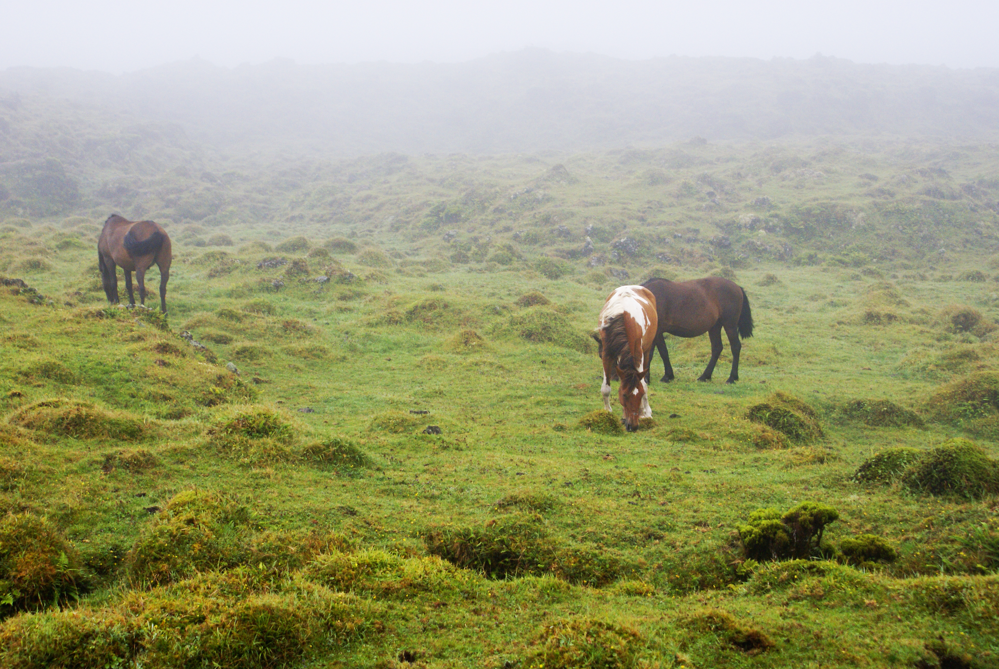 Cavalos a pastar, interior da ilha do Pico, Açores, Portugal